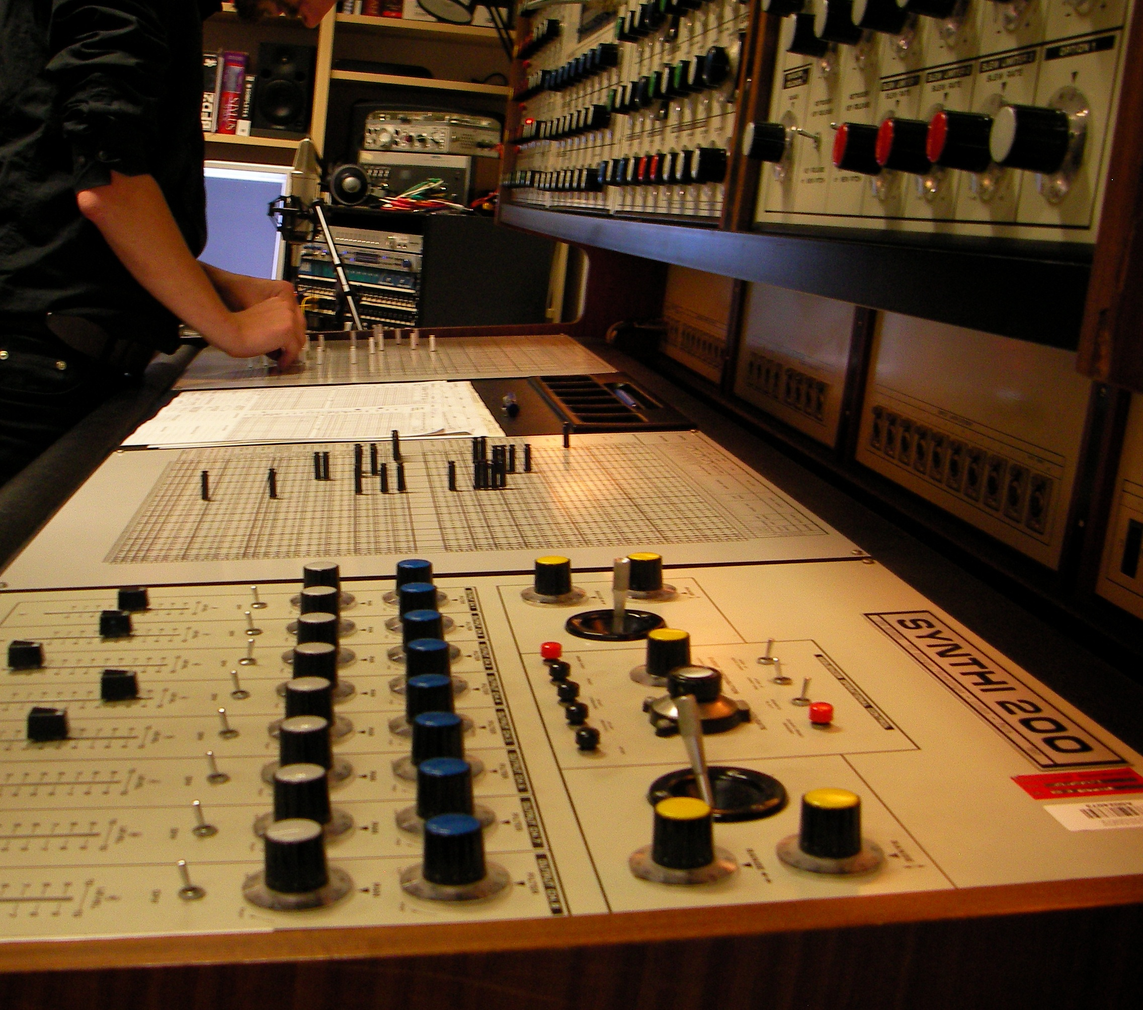 EMS Synthi 200 (EMS Synthi 100 variant model labeled as such) - viewed from left